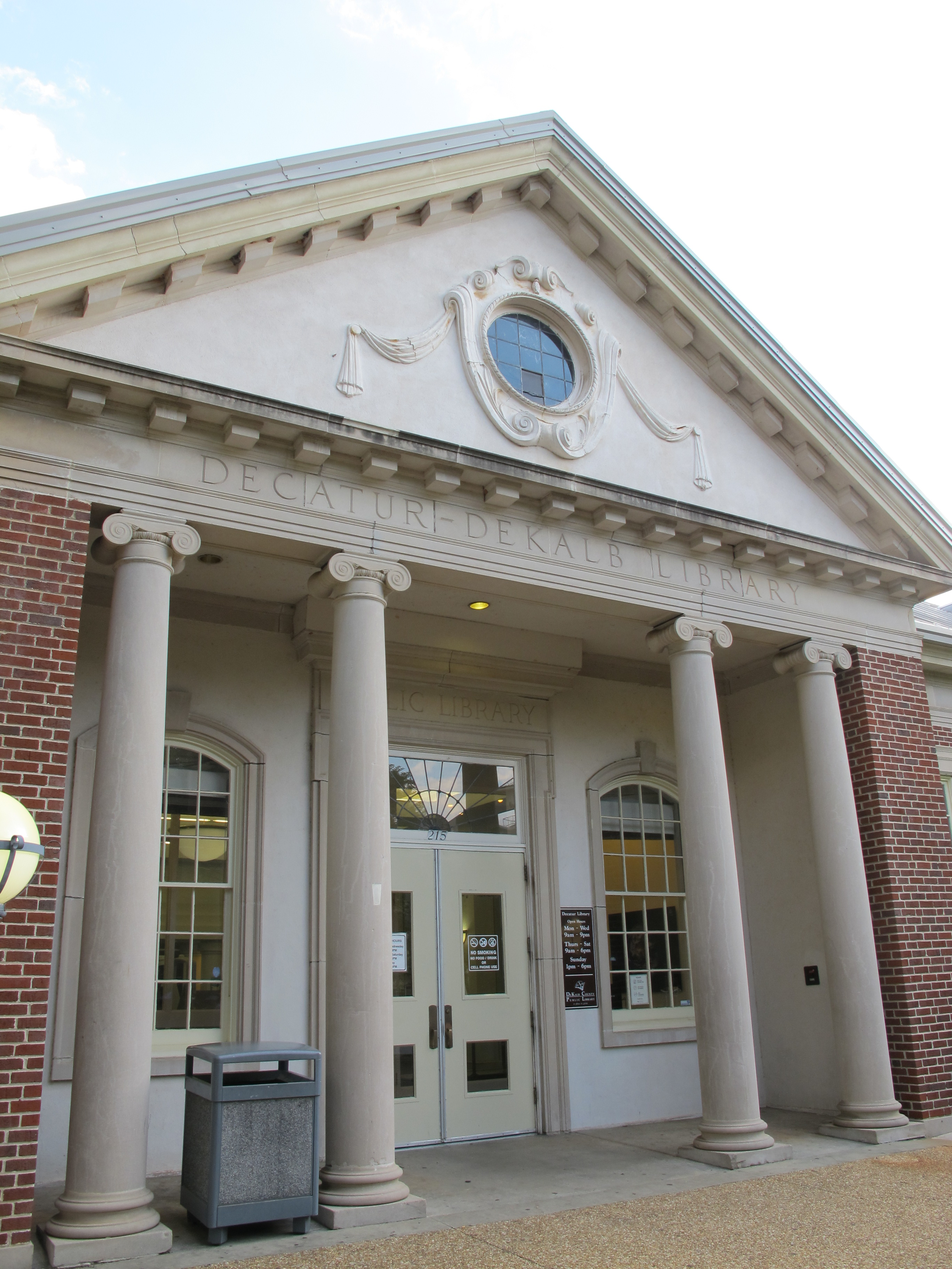 Decatur Library, the central location of the DeKalb County Public Library system.